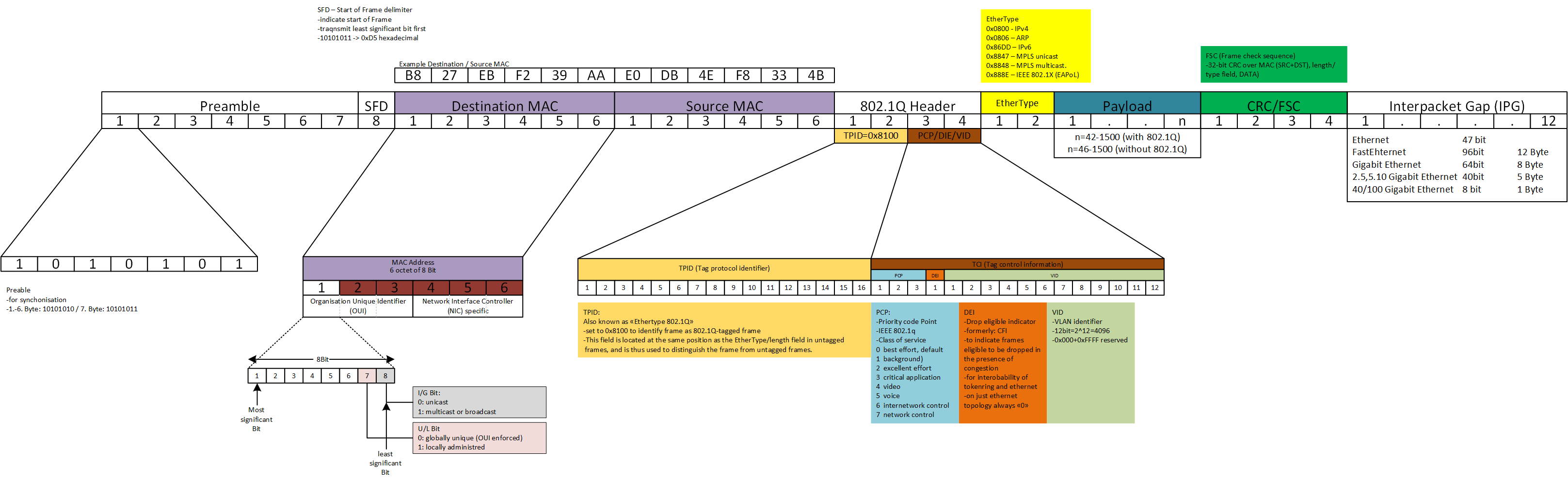 detailled structure of an Ethernet Frame